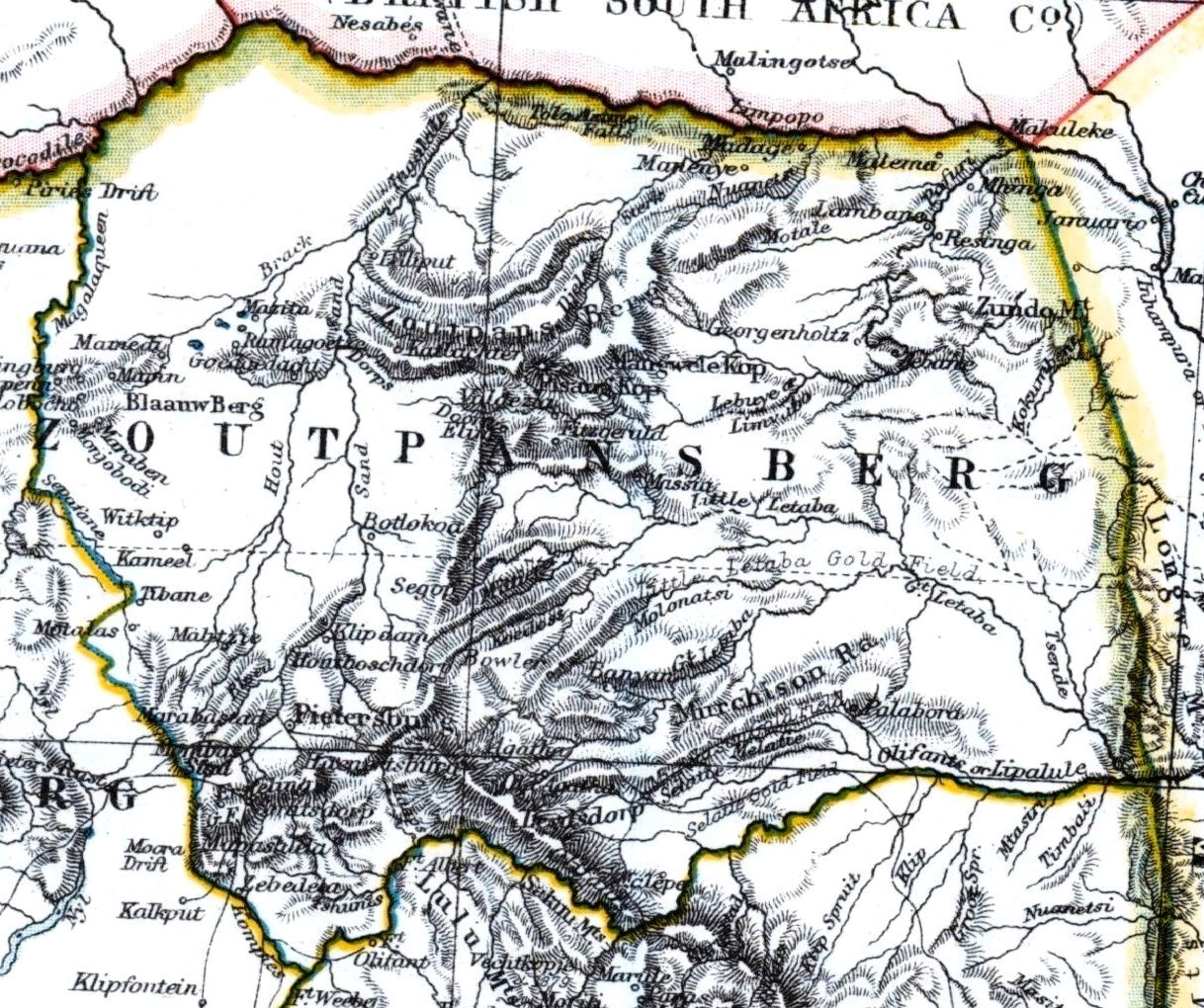 Zoutpansberg in Johnston, W. and A.K. - South African Republic. Orange Free State, Natal, Basuto Land, Etc. [1897]